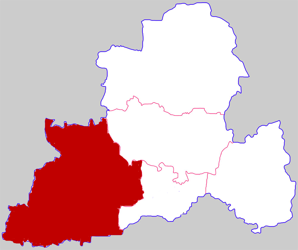 Location of Wuyang county in Luohe city, China